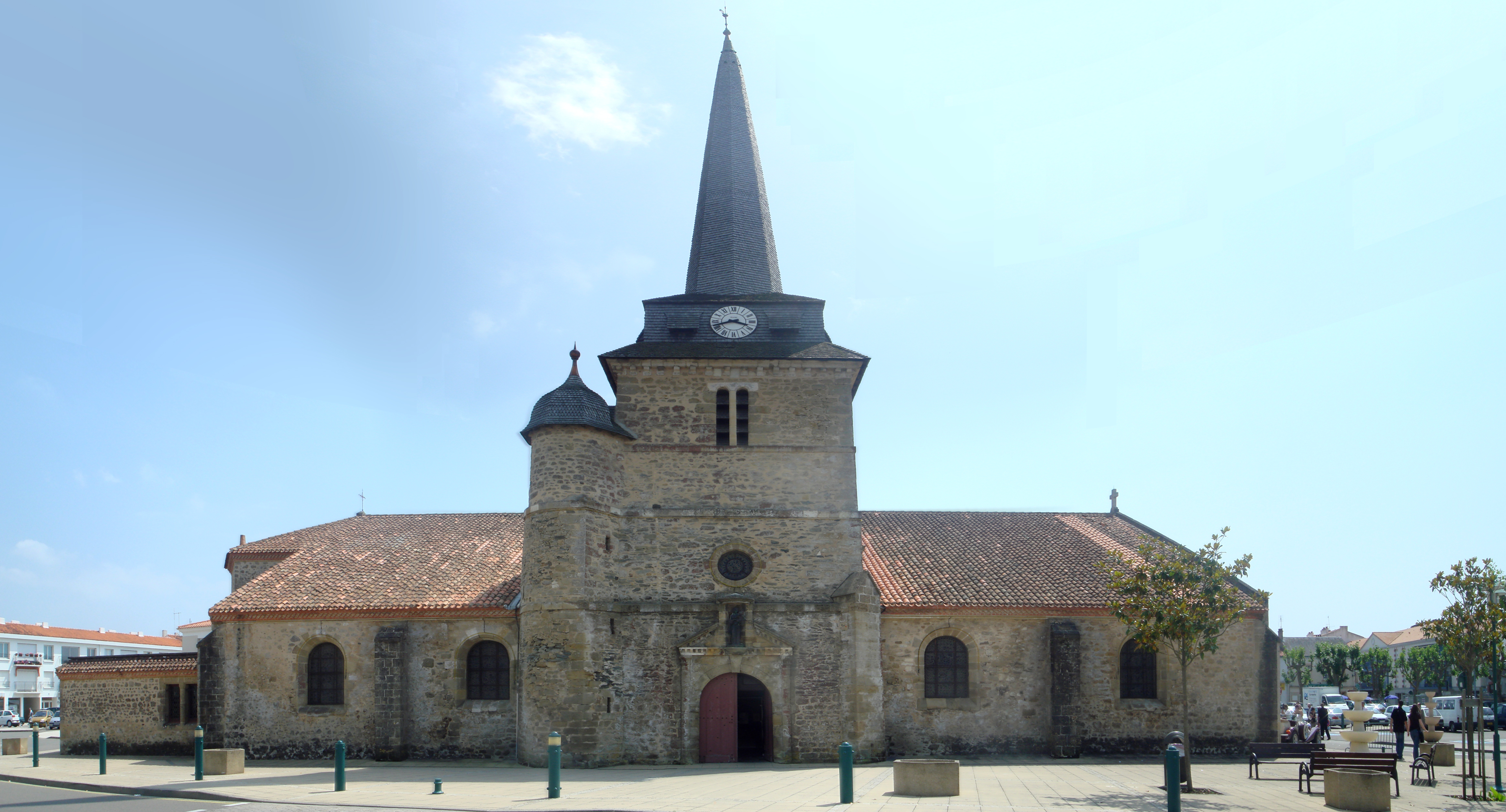 Edited version of :Image:Église de Saint-Jean-Baptiste.jpg. Lens distortion corrected.